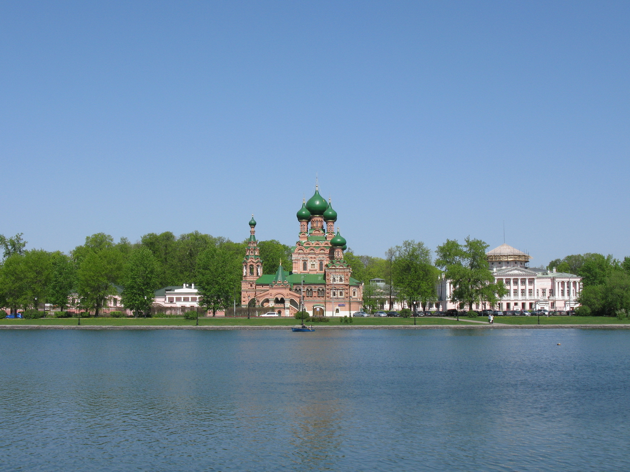 Church_in_Ostankino